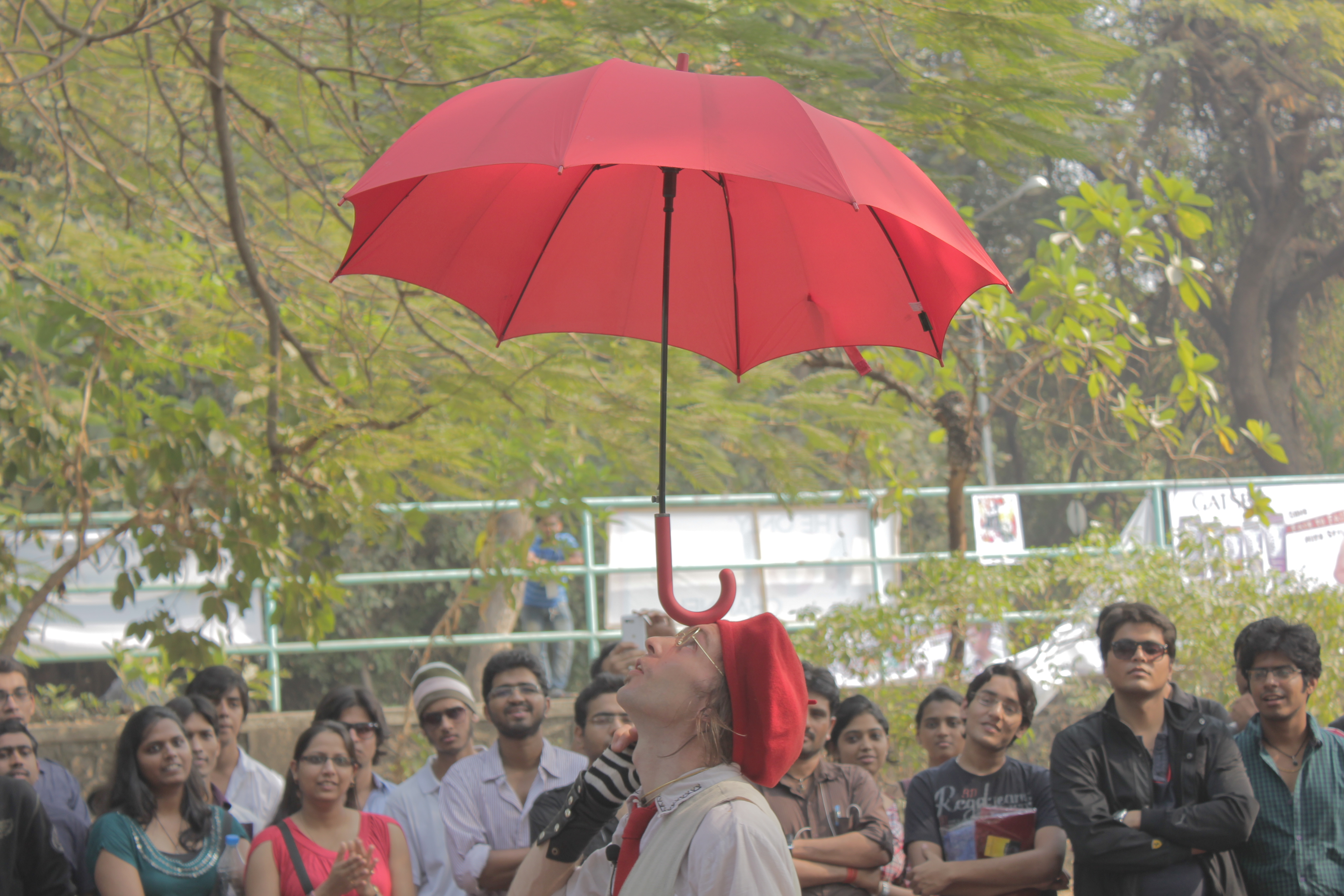 Mood Indigo 2012 had many globally reckoned artists to entertain spectators.